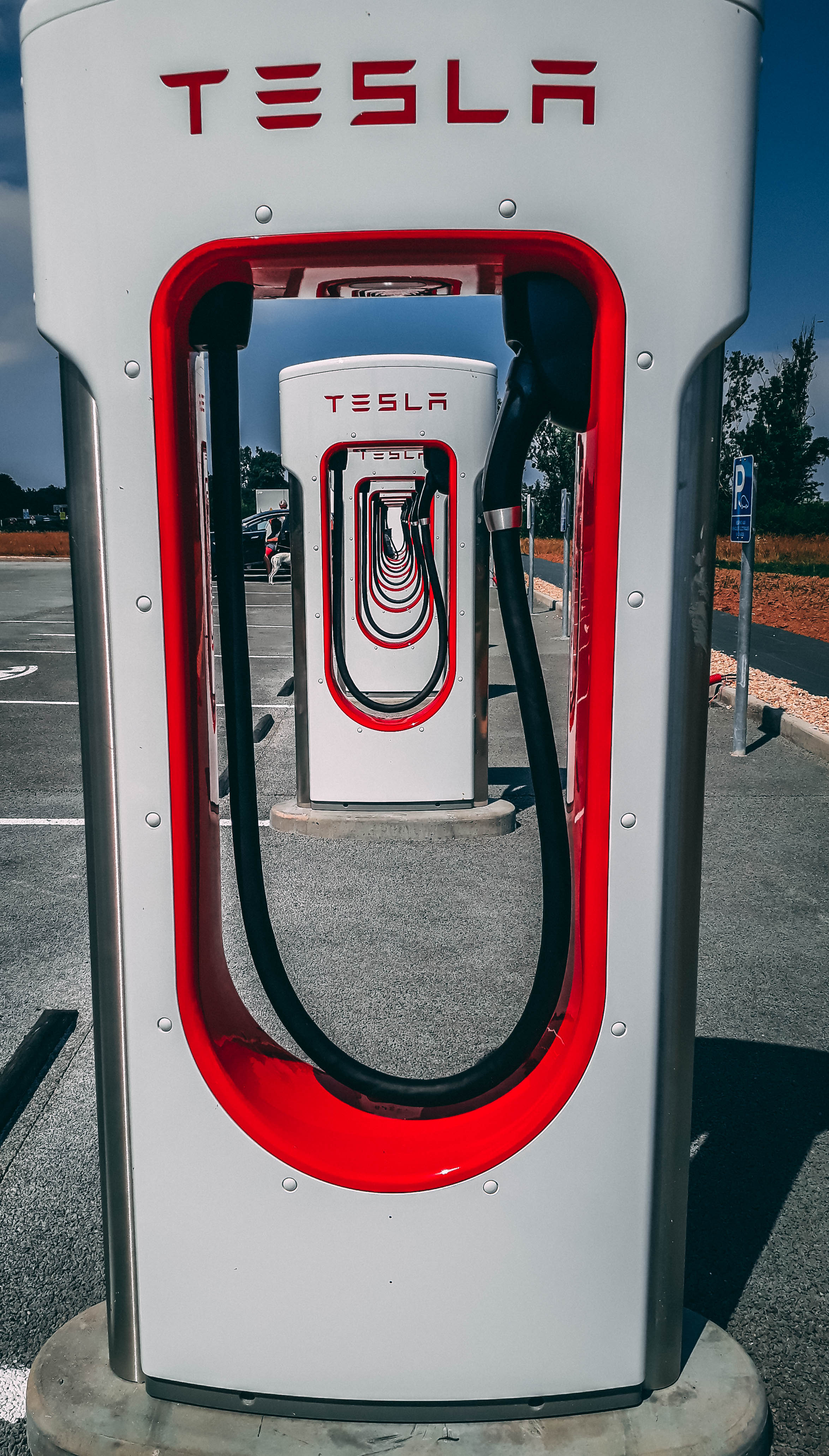 Tesla Supercharger in Mâcon, France.